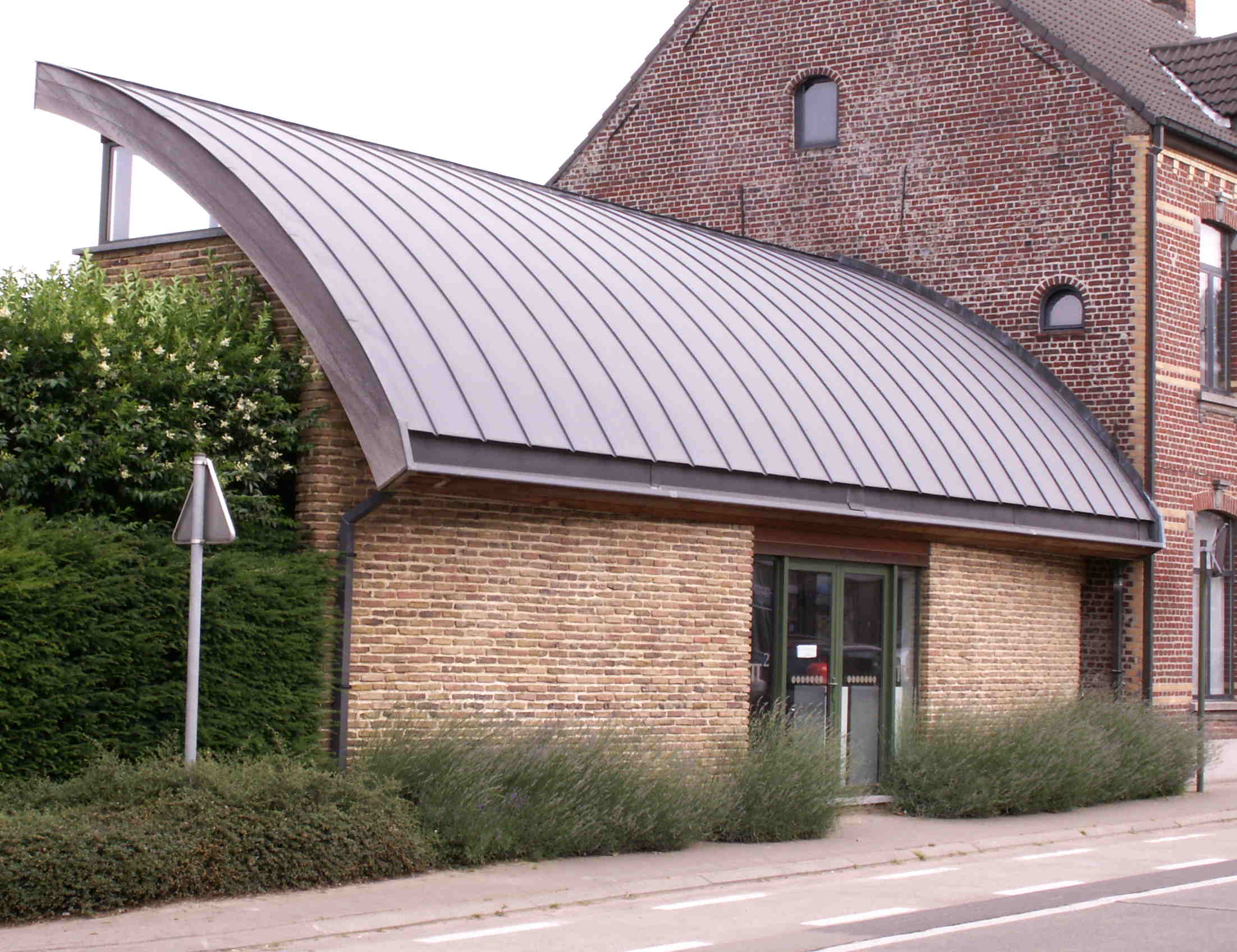 A picture of a building with a round or circular roof. Note that this building has its circular roof worked out only half (full round roofs exist aswell). This kind of geometric structure is already better than fully sloped roofs (stronger if comparative materials are used), yet is still worse than a truly "flat" roof (the latter being more efficient and allow easier access). Also note the gutter/rain pipe, which is circularly shaped as well